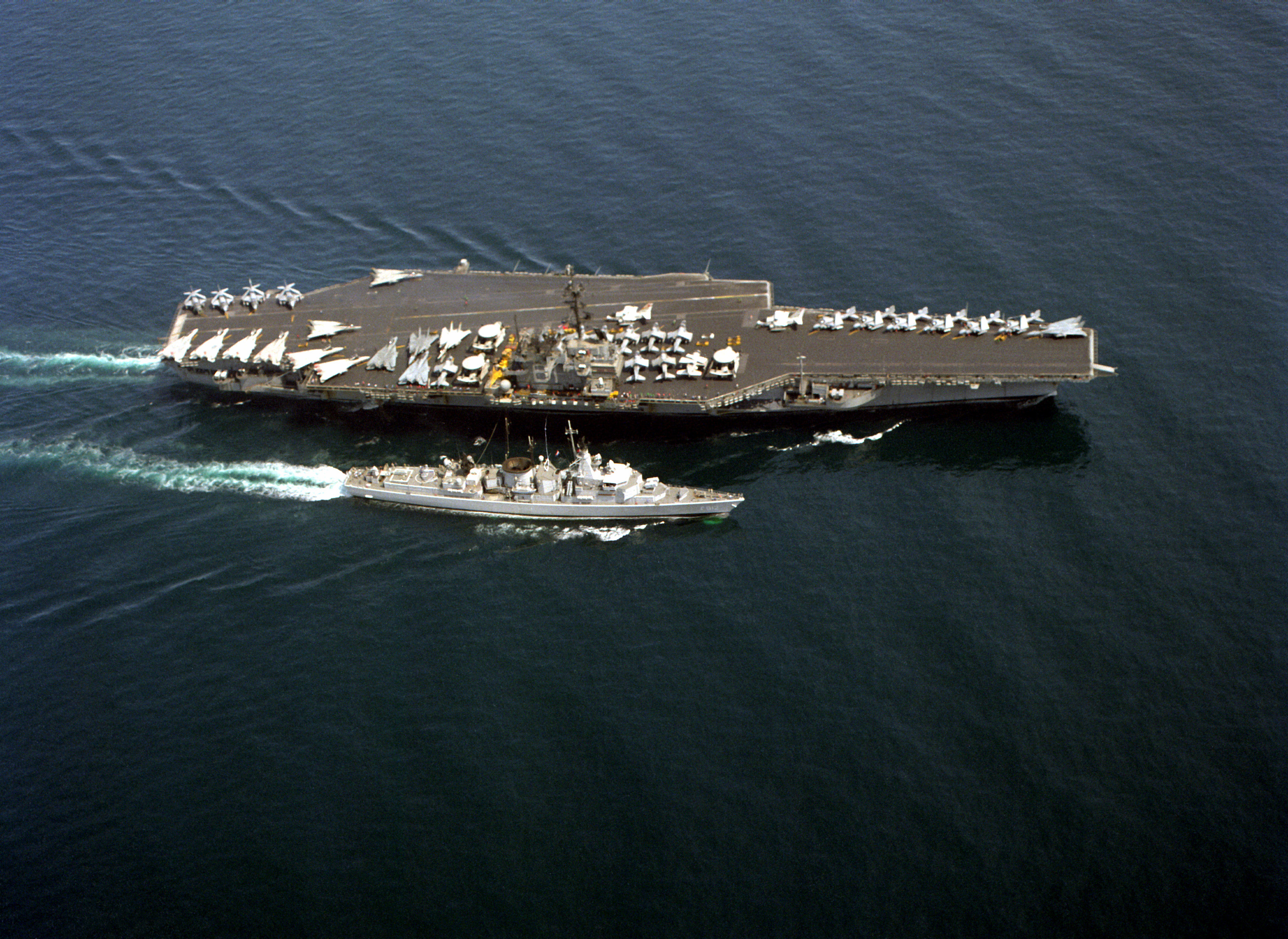 An overhead view of the aircraft carrier USS Ranger (CV-61) conducting an underway replenishment with the Dutch frigate F812 Jacob Van Heemskerck during Operation Desert Shield.